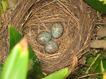 Turdus leucomelas nest with eggs in Suriname